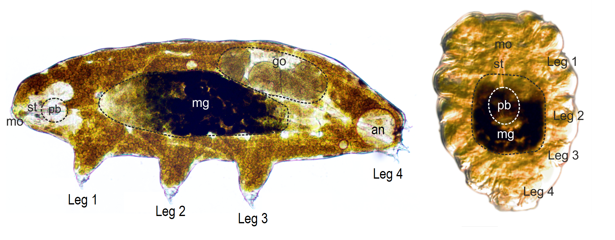 Light microscopy of A. active, hydrated animal (lateral view) and B. a tun (ventral view) showing the rearrangement of major anatomical structures during tun formation. Note the compact body shape of the tun. Dashed circles indicate areas of the midgut (mg), gonads (go) and pharyngeal bulb (pb), respectively. The degree of longitudinal contraction is ultimately limited by the length of the rigid stylets (st). The pharyngeal bulb is for the most part repositioned in the dorsomedian plane. Maximum projection image of a confocal z-series of C. hydrated DAPI stained specimen (lateral view), and D. DAPI stained tun (ventral view) demonstrating the reposition of cell nuclei during tun formation. Scanning electron micrograph of E. a hydrated specimen (lateral view) and F. a tun (dorsal view) revealing the extensive changes in external morphology associated with formation of the tun. A↔P, anterior-posterior axis; br, brain; gI-gIV, ventral ganglia; mo, mouth. Scale bars = 100 μm. Edited version of Rearrangement of organs and cells during anhydrobiotic tun formation in Richtersius coronifer.png